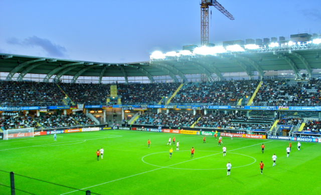 Germany U21 vs. Spain U21 (0–0) in Göteborg (Gothenburg) during the U21 European Championships in 2009. Venue: Gamla Ullevi